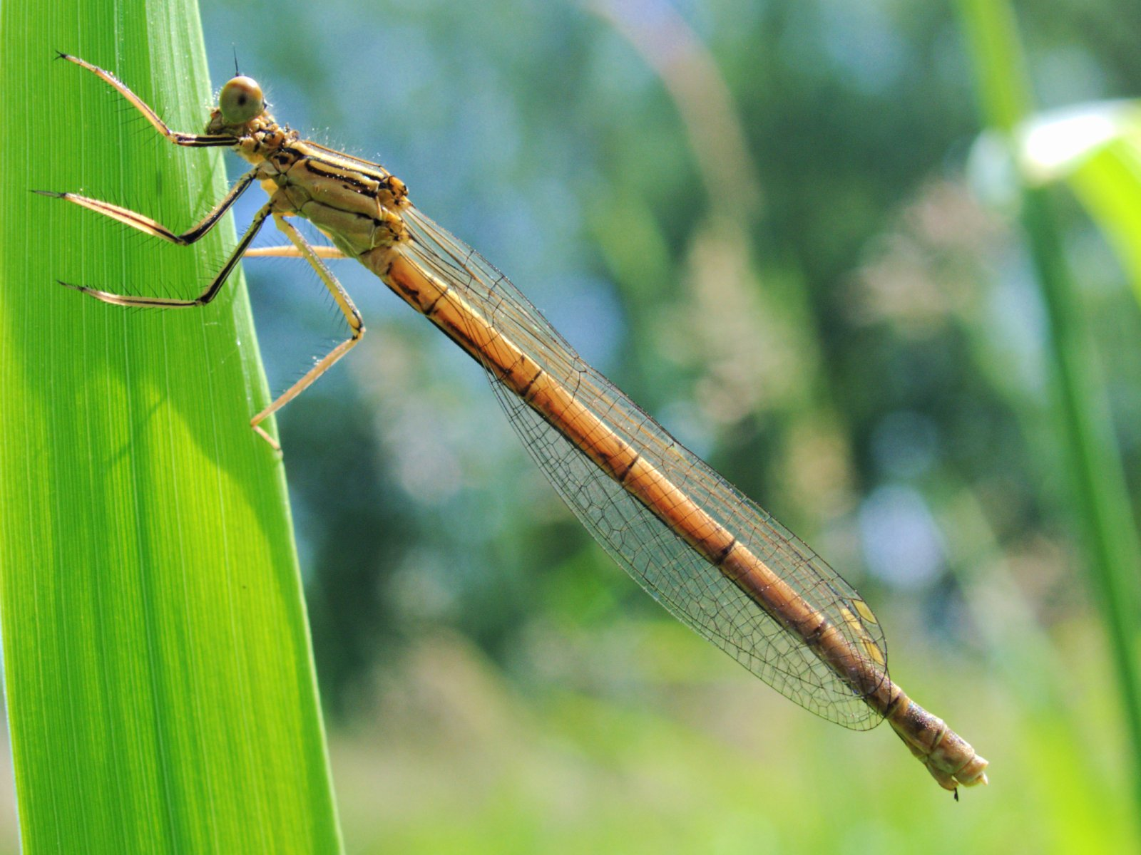 Name: Platycnemis pennipes, female. Family: Platycnemididae. Location. Münster, NRW, Germany